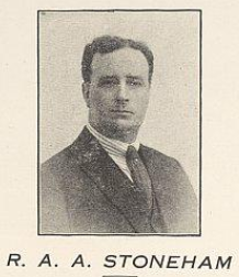 Photograph of Reginald Stoneham published 1919 on the rear cover of his song "What might Have Been" held at the Australian National Library